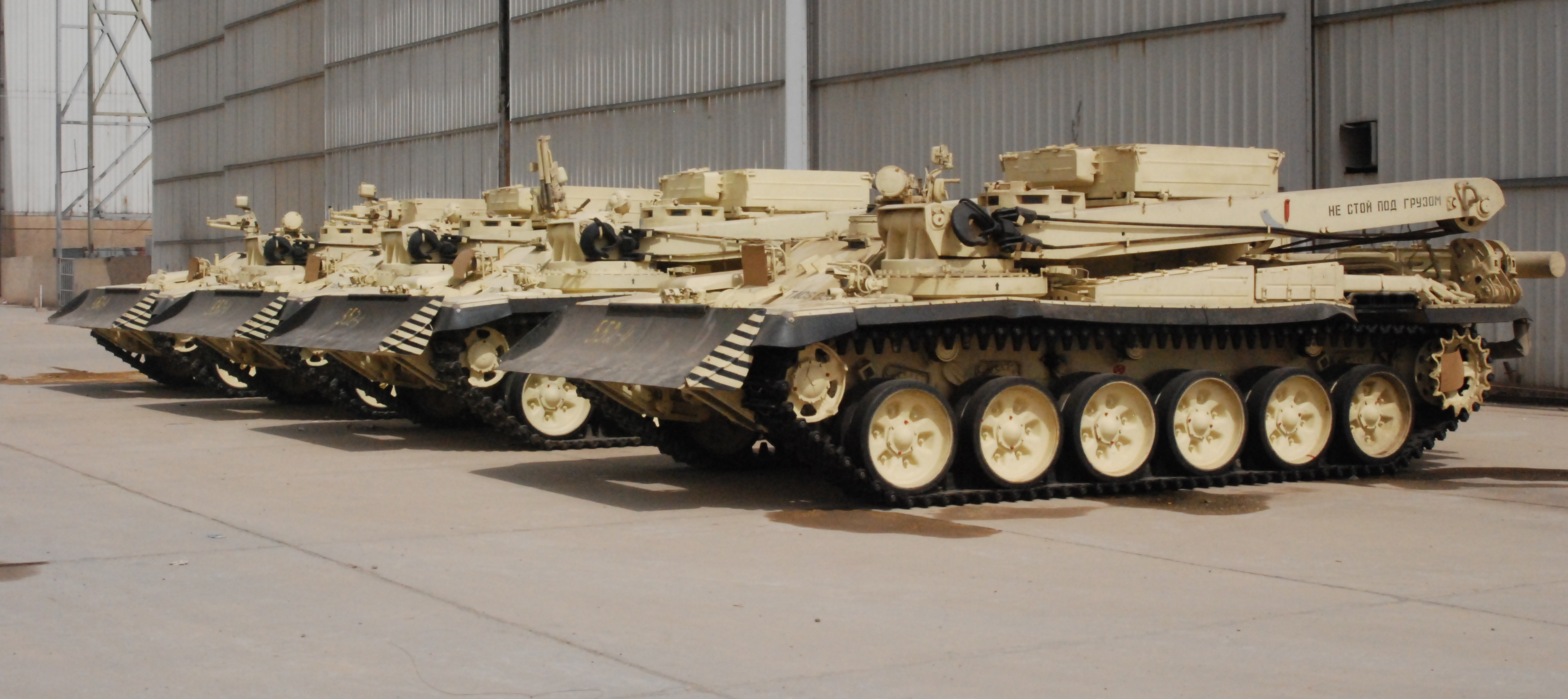 Iraqi BREM-1 armoured recovery vehicles based on T-72-chassis.